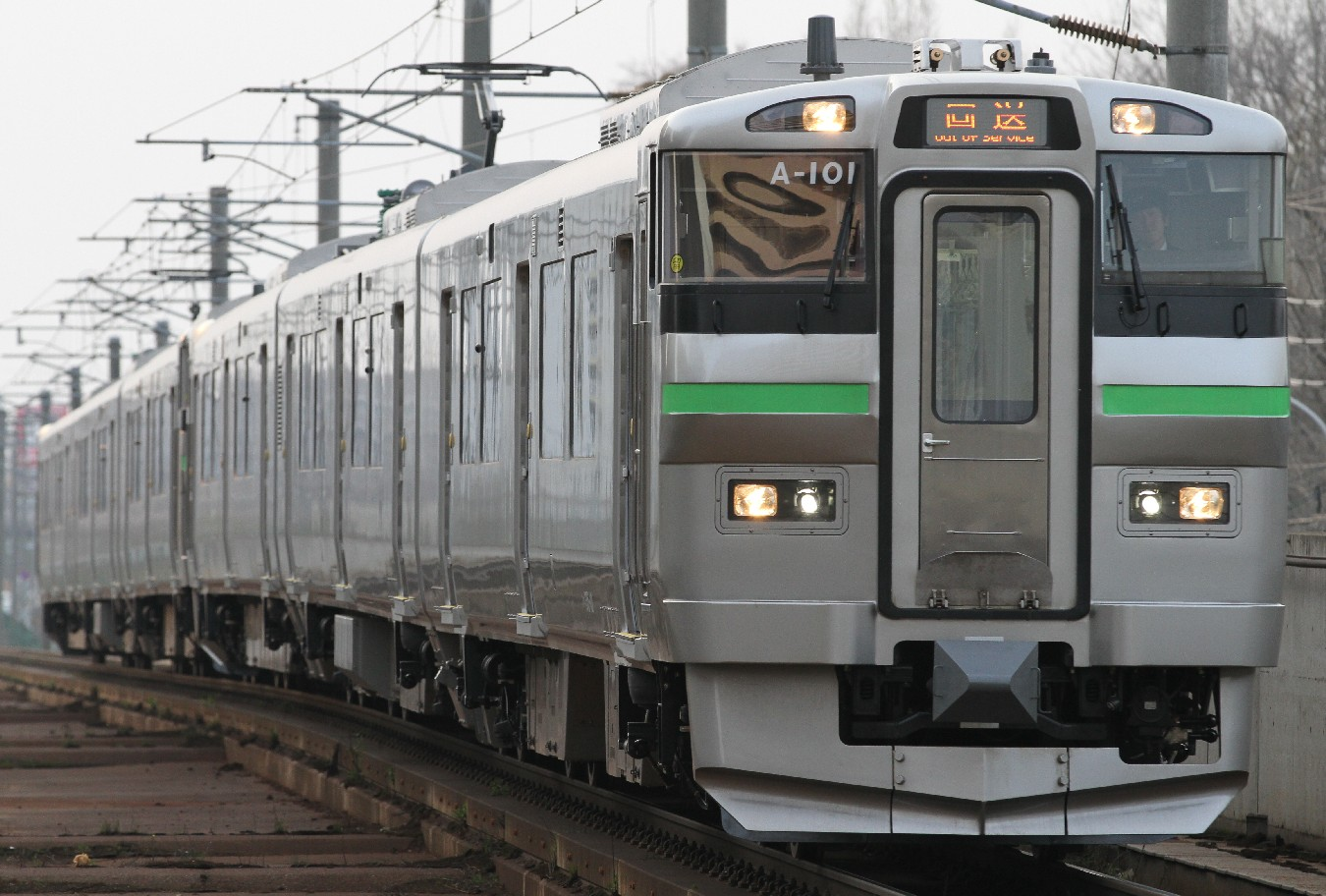 JR Hokkaido 735 series EMU sets A-101 and A-102 on an empty stock working approaching Kotoni Station on the Hakodate Main Line